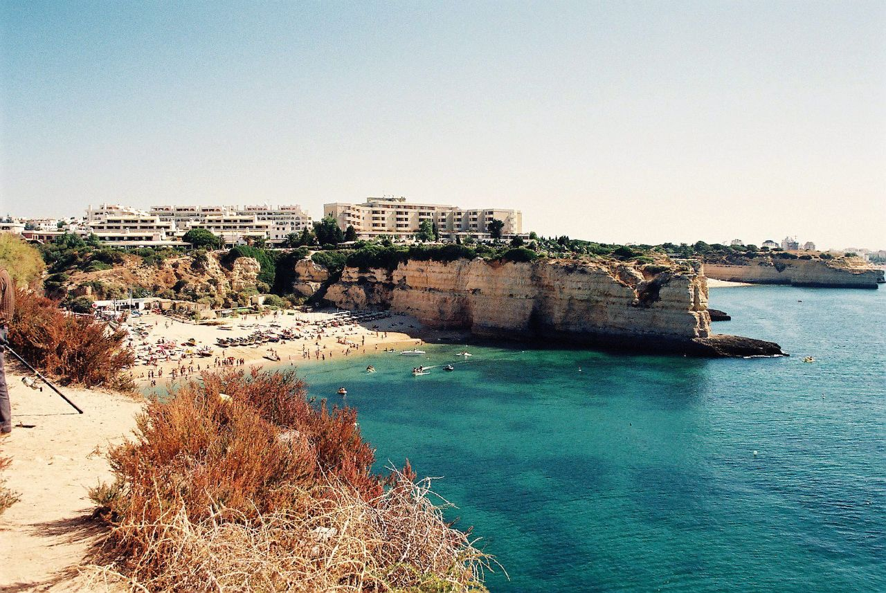 See where this picture was taken. [?]